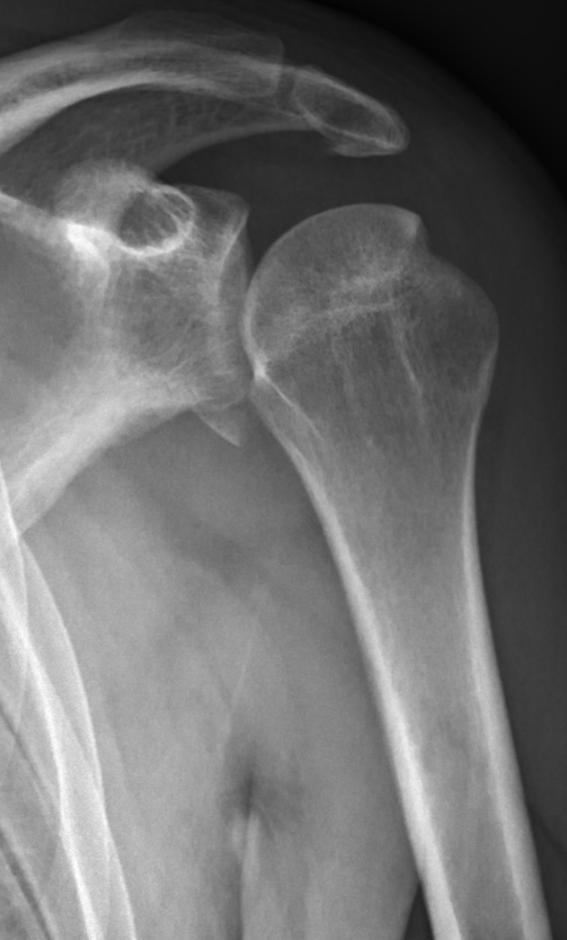 edit X-rays of the left shoulder of a 25 year old male who had a dislocation when trying to get up from his bed. Anteroposterior projection shows a dislocation. Y-projection shows anterior dislocation Anteroposterior projection with internal rotation after reduction, showing a bony Bankart lesion and a Hill–Sachs lesion. Y-projection. Both before and after reduction, with lesions labeled. Vector (.svg) version is available. The bony Bankart lesion is new, as evidenced by lack of cortex on the superior part of the fragment, and is presumed to be caused by glenohumeral ligaments pulling the humerus towards the glenoid as the shoulder dislocates, causing a fracture even without significant external forces. The Hill-Sachs lesion may be old, since the patient had previous shoulder dislocations.